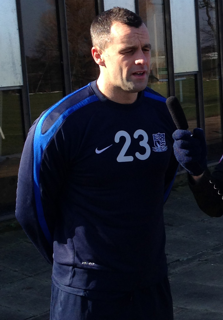 Chris Barker chats to the media in 2013